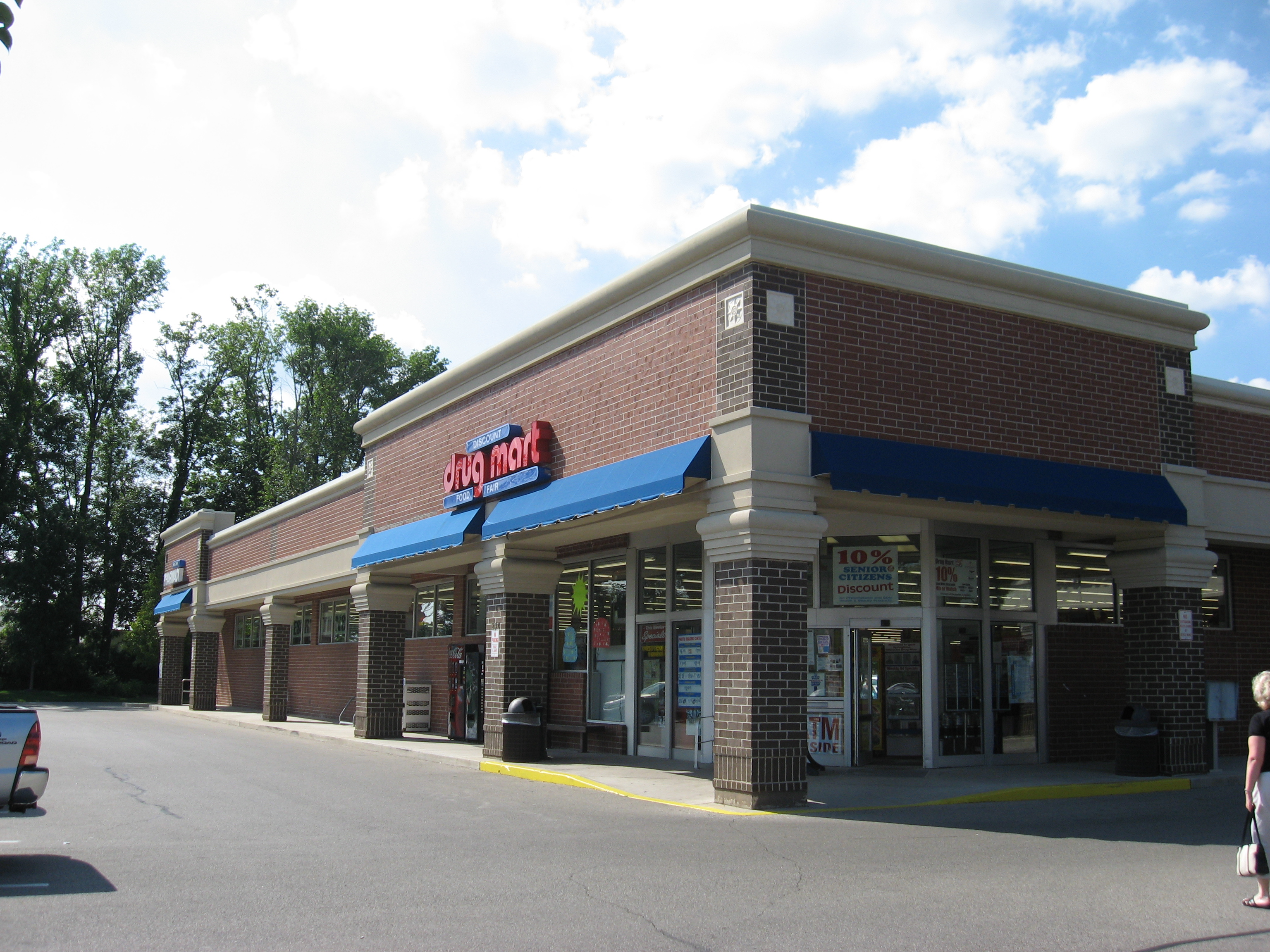 Discount Drug Mart location (Springboro, USA)